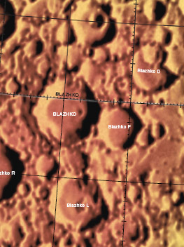 Combined image of Color-coded LAC 34 and LAC 52 from the USGS Digital Atlas.